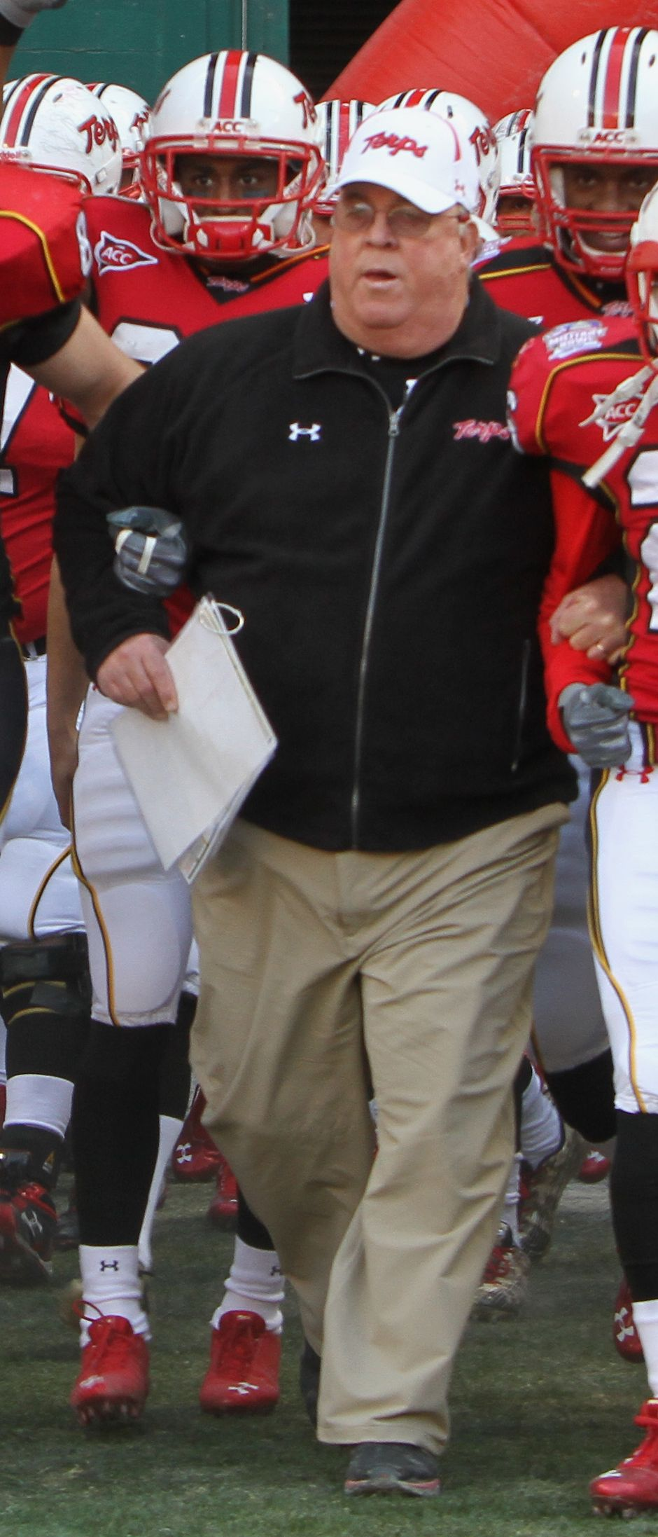 Coach Ralph Friedgen and the University of Maryland Terrapins entering the field for the 3rd annual Military Bowl game against East Carolina University